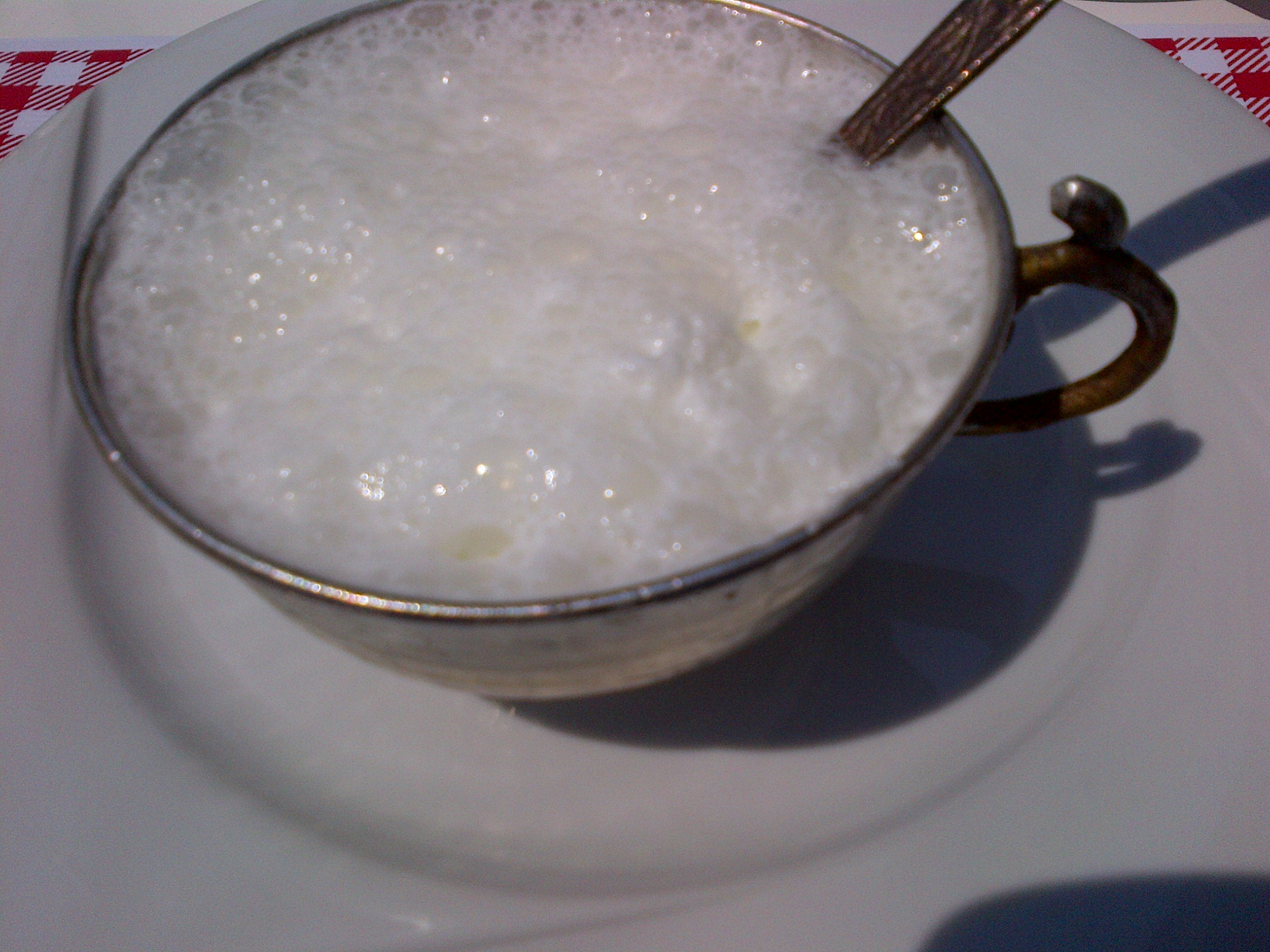 "Yayık ayranı" is artisanally made ayran, using traditionalmethod and instrument.